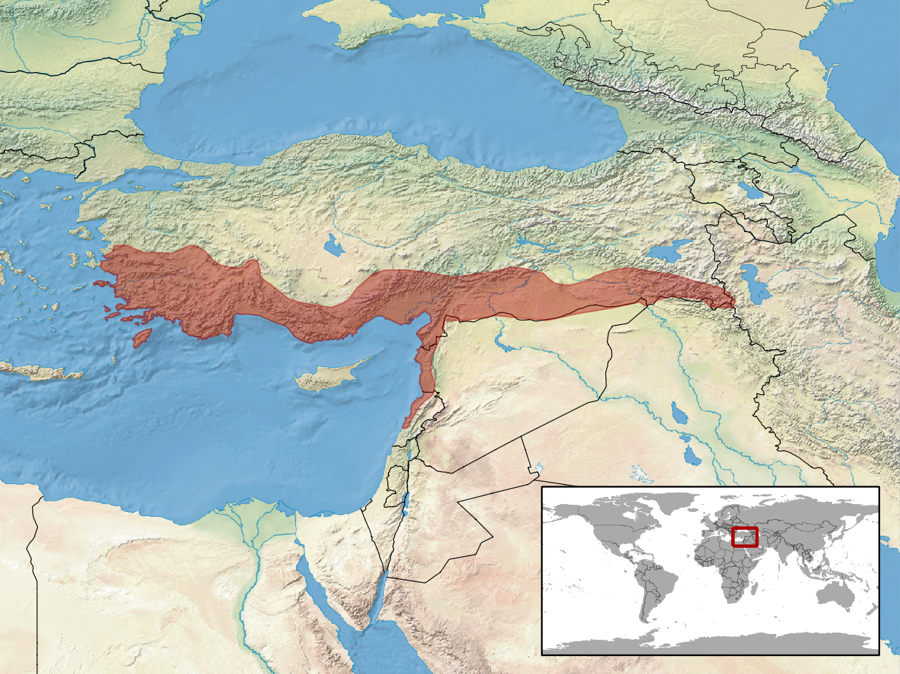 geographic distribution of Blanus strauchi (Native: Greece; Iraq; Lebanon; Syrian Arab Republic; Turkey)